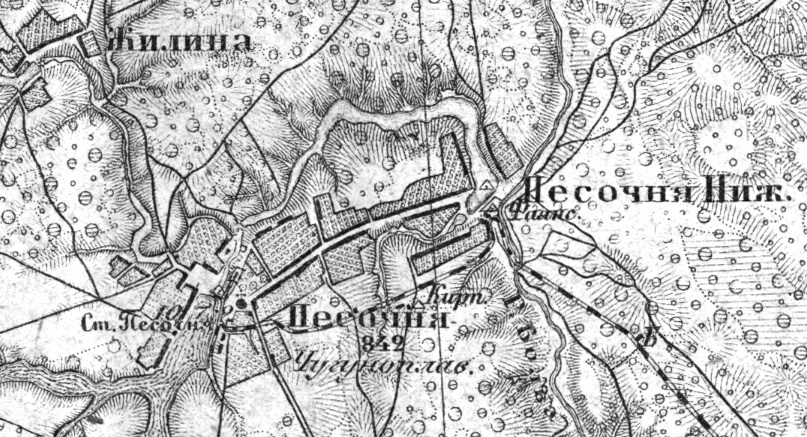 "Shubert map". Fragment of topographic map of Kaluga Governorate years. Printed in 1850. 2 versta in inch